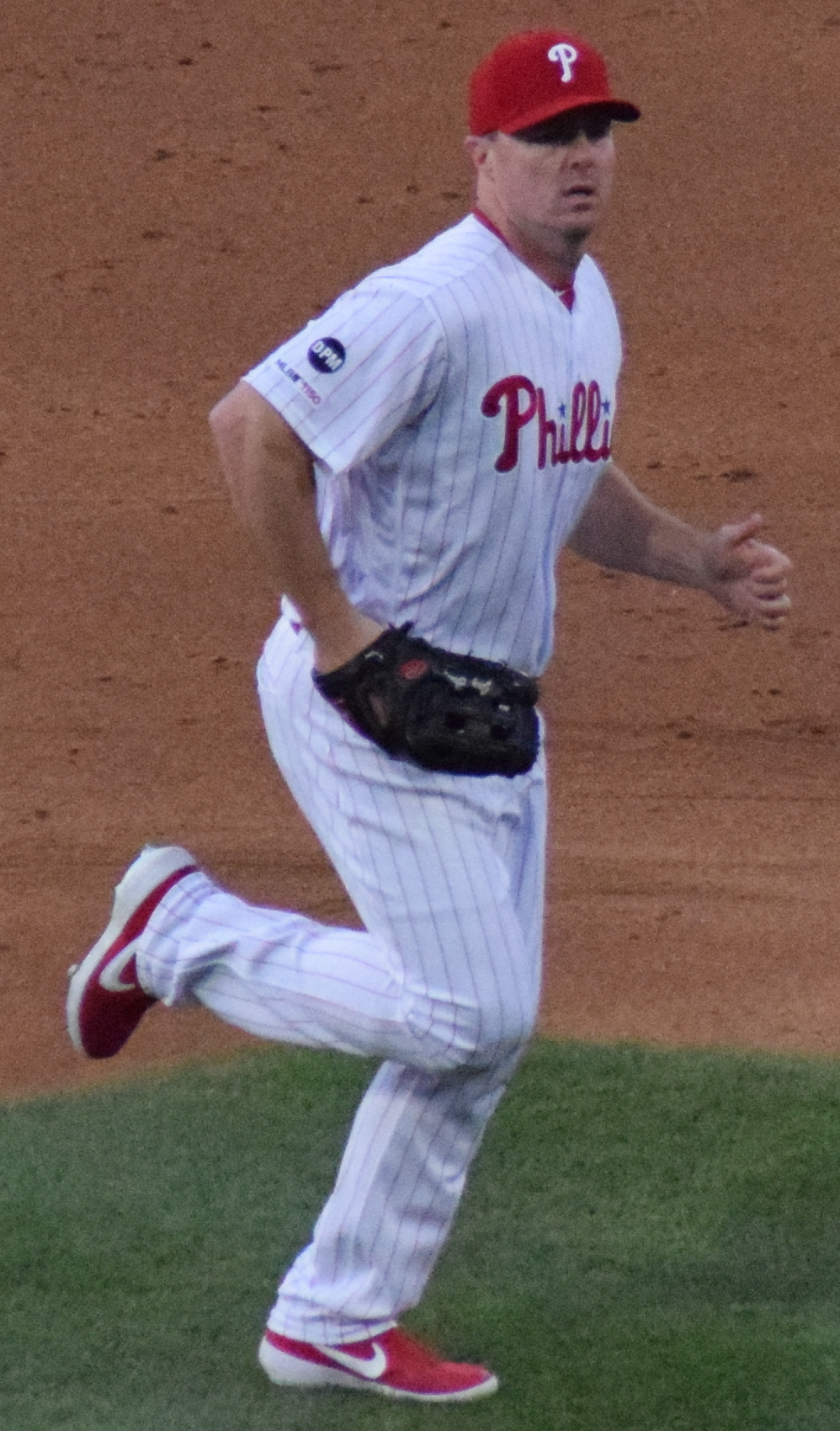 Jay Bruce